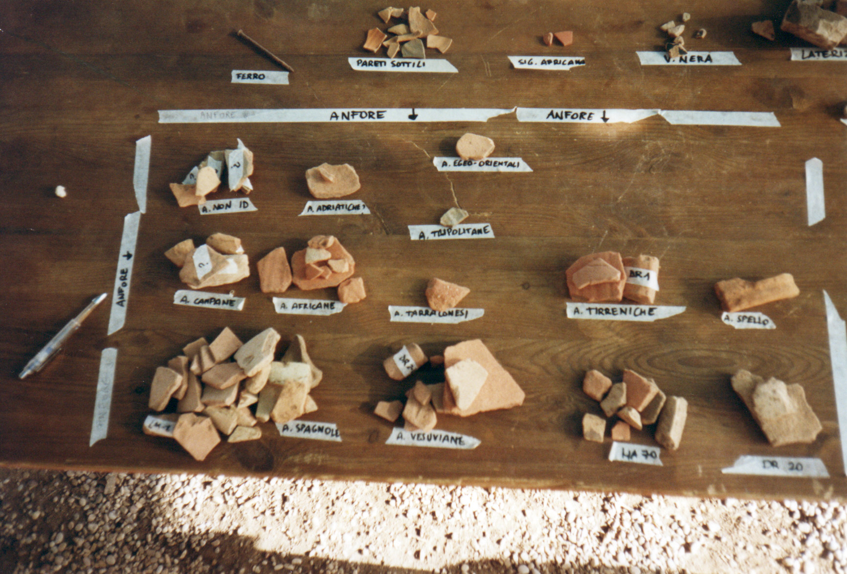 Some archaeological materials, from Falerii Novi (Viterbo), Italy.